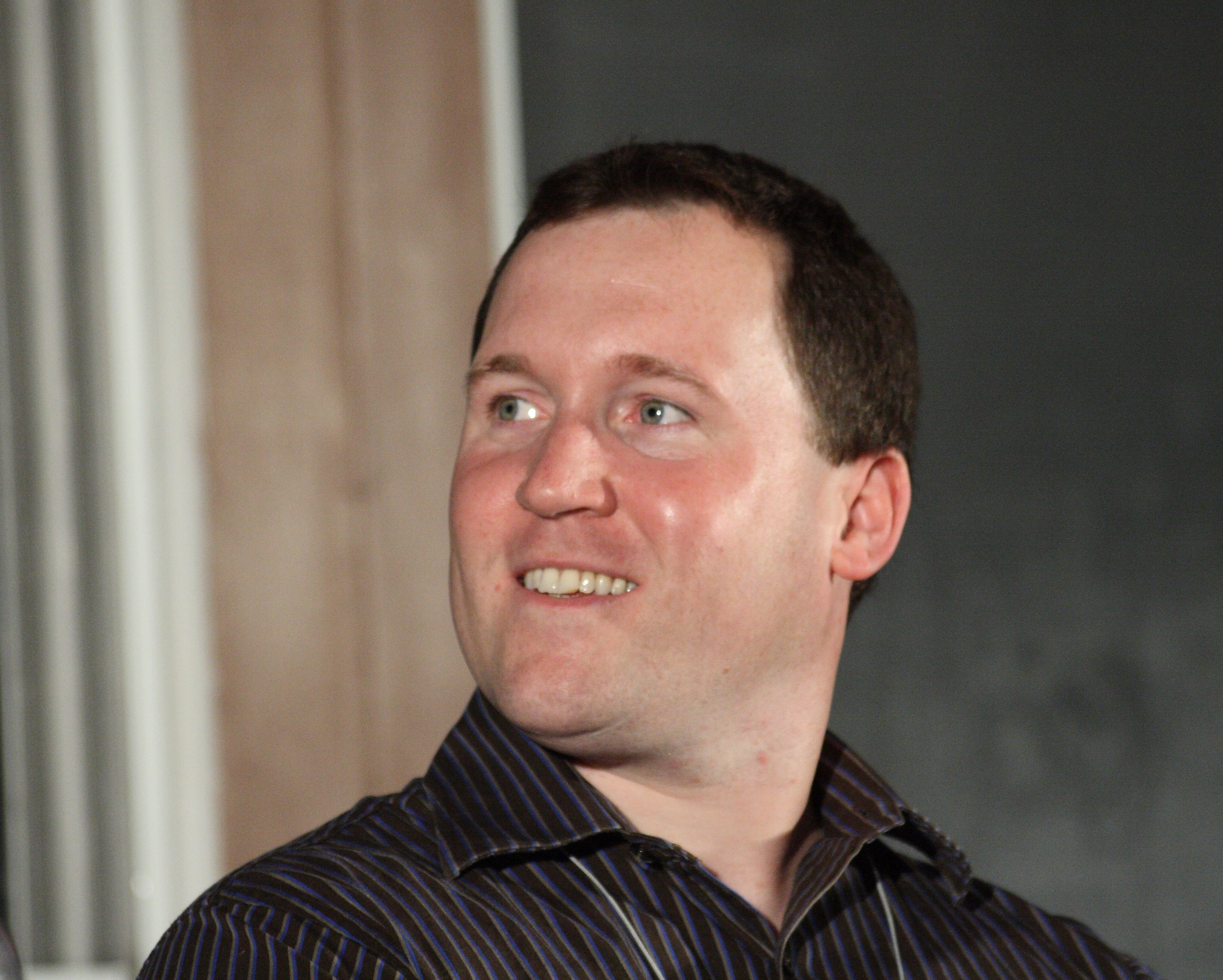 Brian Govern, the first person to review the Three Wolf Moon t-shirt on , at ROFLCon II